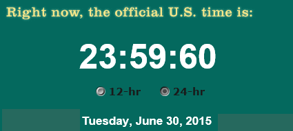 Screen grab of the UTC clock from during the leap second on June 30, 2015.